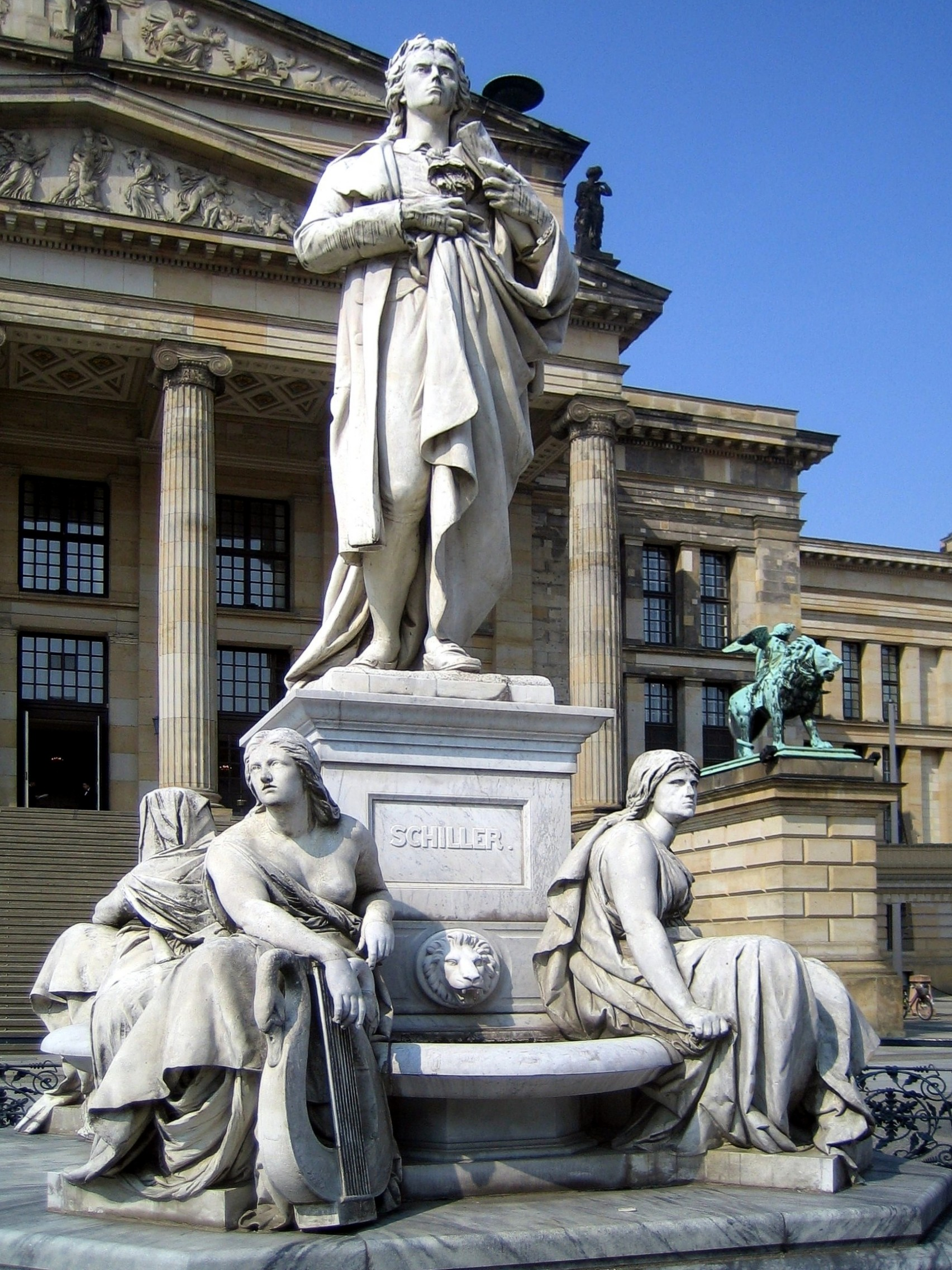 The "Schillerdenkmal" (Schiller-memorial) at Gendarmenmarkt in Berlin. Sculptor: Reinhold Begas (1831-1911).